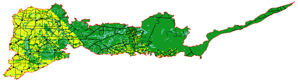 This is a map showing internal detail of the Interim Biogeographic Regionalisation of Australia (IBRA) Mallee region. Areas that are predominantly given over to agriculture are shown in yellow; those that are still native vegetation are green; barren areas are light brown. Roads, railway lines, towns, watercourses and lakes are also shown.